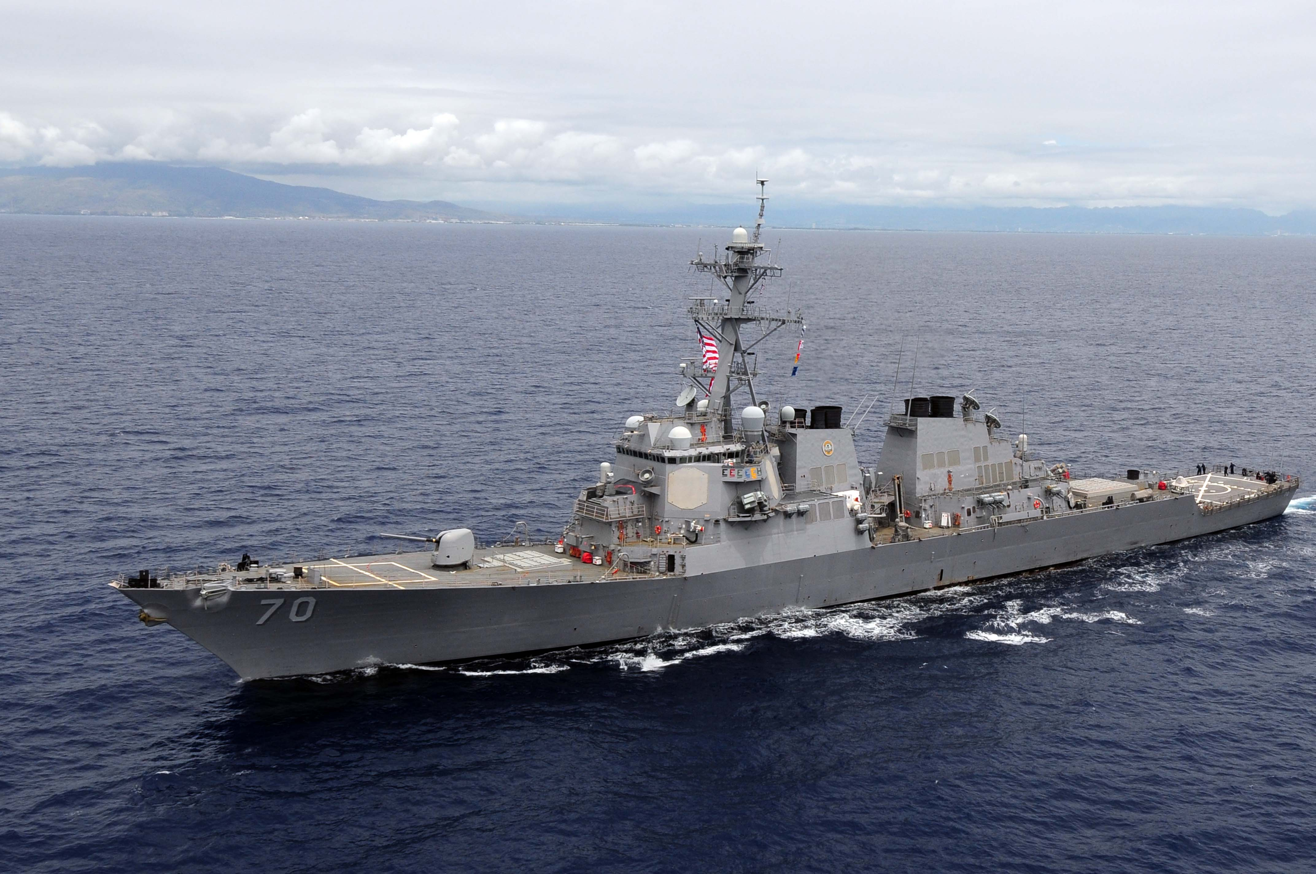 HONOLULU (April 15, 2011) The guided-missile destroyer USS Hopper (DDG 70) leaves Joint Base Pearl Harbor-Hickam for an independent deployment. Hopper will conduct operations in the U.S. 5th and 7th Fleet areas or responsibility. (U.S. Navy photo by Mass Communication Specialist 2nd Class Jon Dasbach/Released) 110415-N-KT462-199